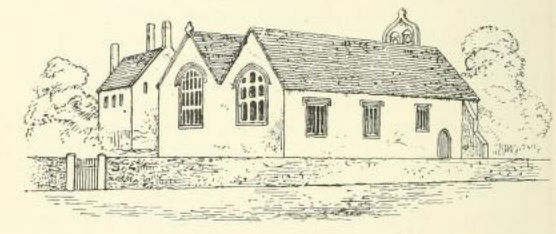 A drawing of the Old Church of St Nidan, Llanidan, from Rev. John Skinner's "Ten days' tour through the isle of Anglesea, December, 1802". Published 1908 by the Cambrian Archaeological Association.